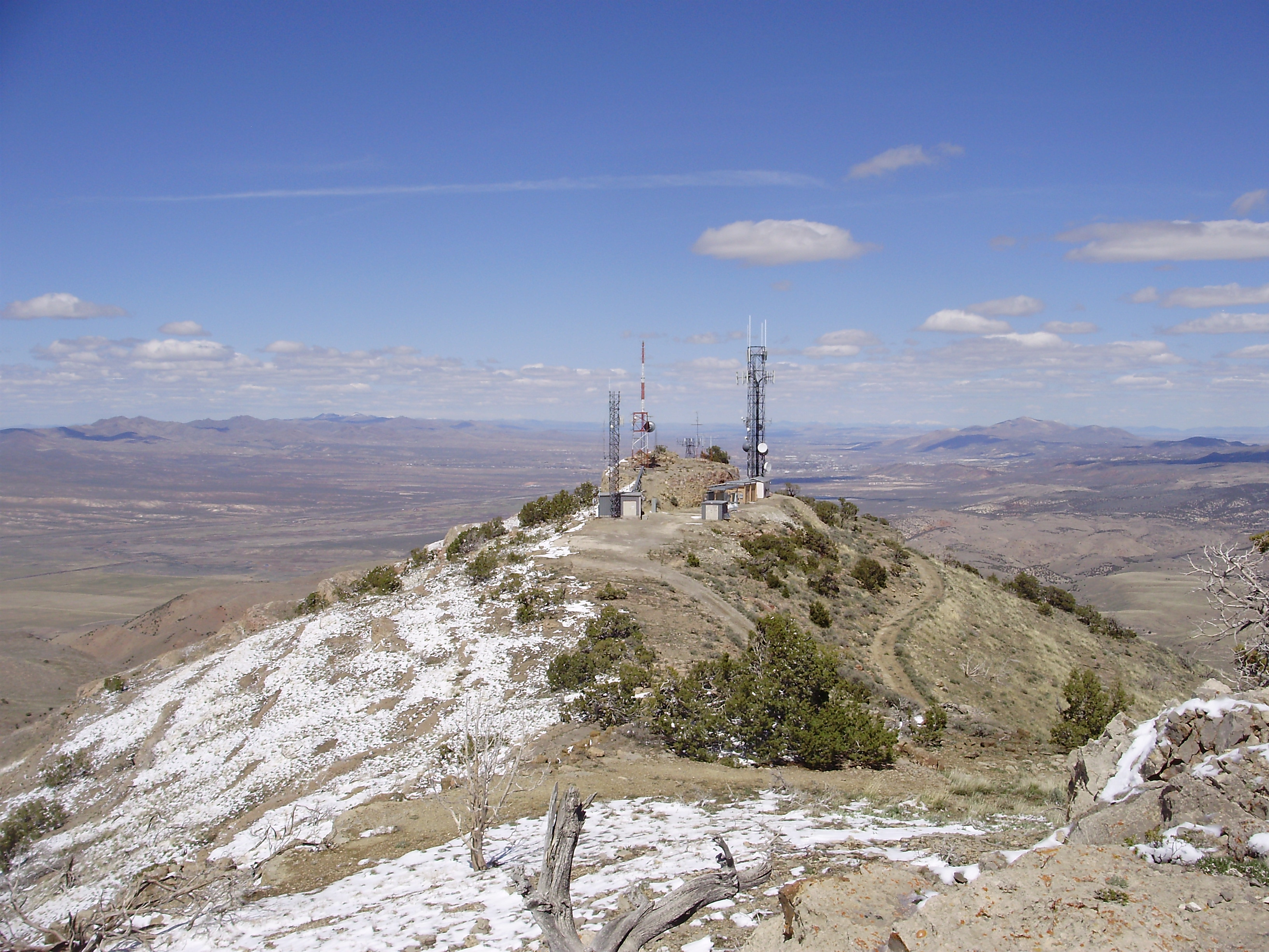 View north-northeast from the summit of Grindstone Mountain, Nevada